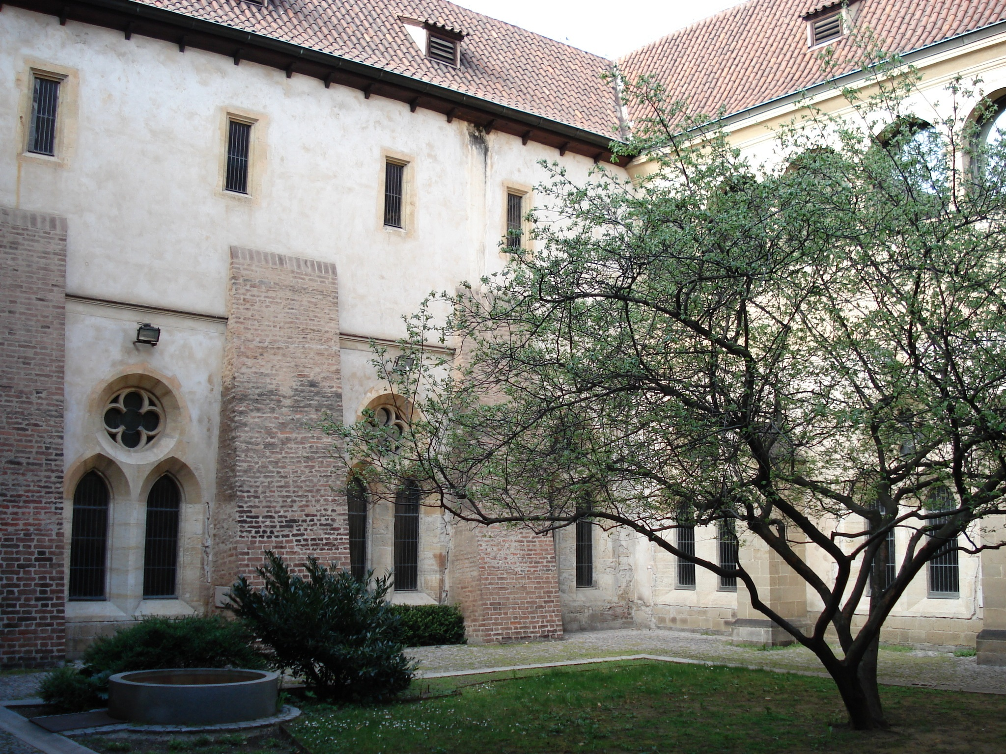 Cloister of the convent of St Agnes of Bohemia, Prague